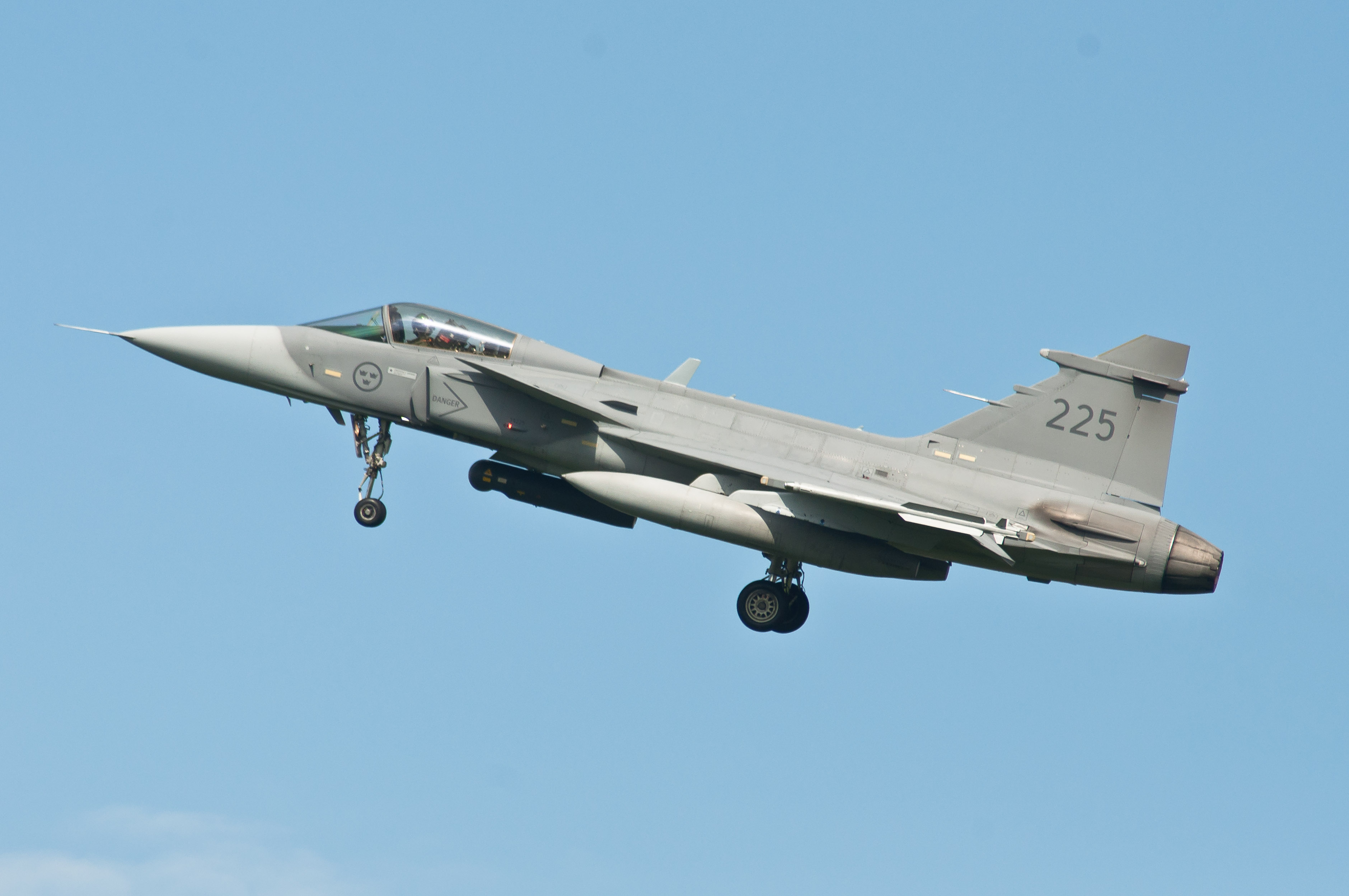 J-39C Gripen Swedish Air Force